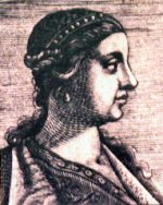 Beatrice of Castile (1242–1303)